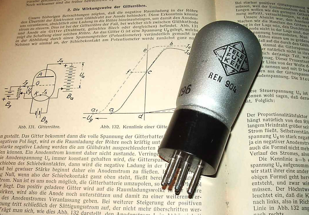 Triode REN 904. Early Telefunken vacuum tube. Manufactured ca. 1930 - 1935. The german book lying in the background is "Die Rundfunktechnik" by W.Lehmann, printed in 1930)